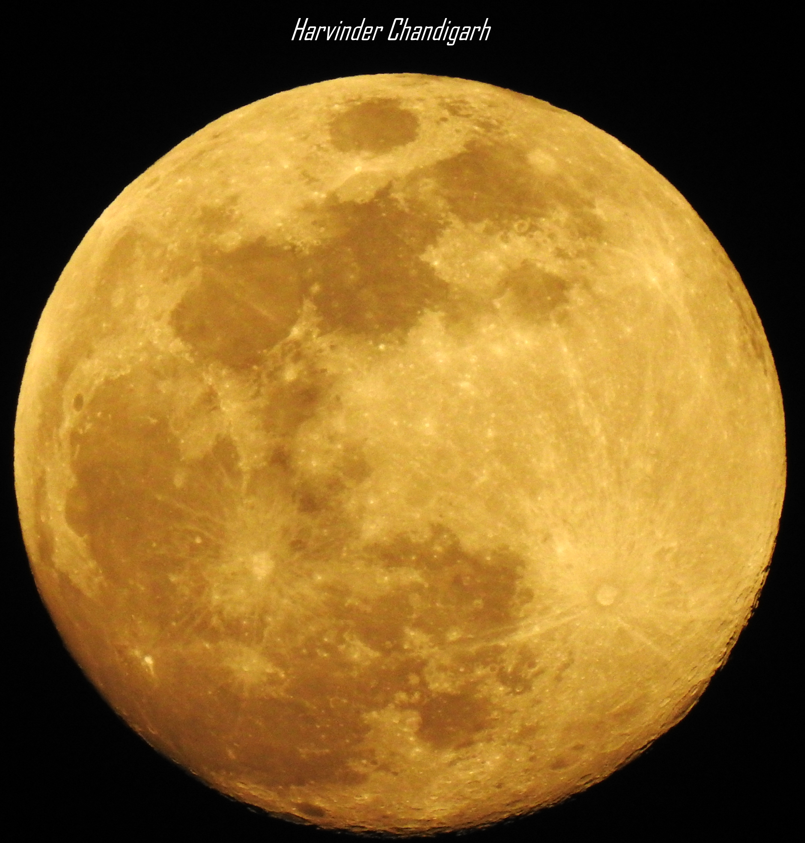 Moon one day before .. Buddha Purnima - 6th May 2020